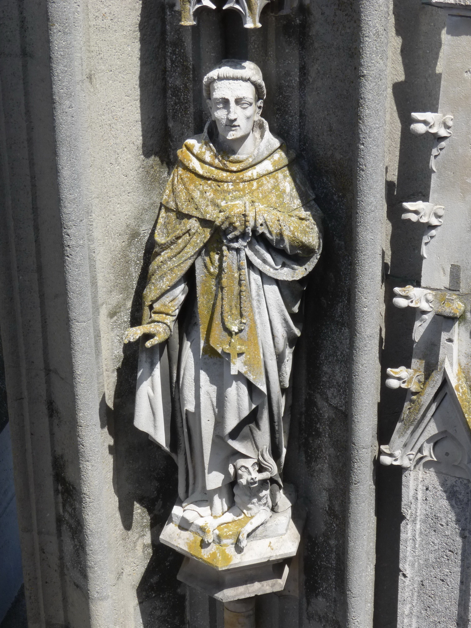 Sculpture of Saint Dominic on the northern tower of Regensburg Cathedral